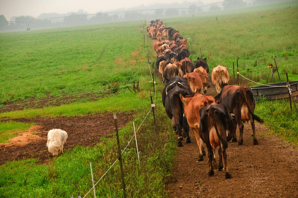 The basic rule for organic agriculture is to allow natural substances and prohibit synthetic. For livestock like these healthy cows, however, vaccines play an important part in animal health—especially since antibiotic therapy is prohibited. Photo courtesy Pleasantview Farm, an Ohio certified organic dairy farm.